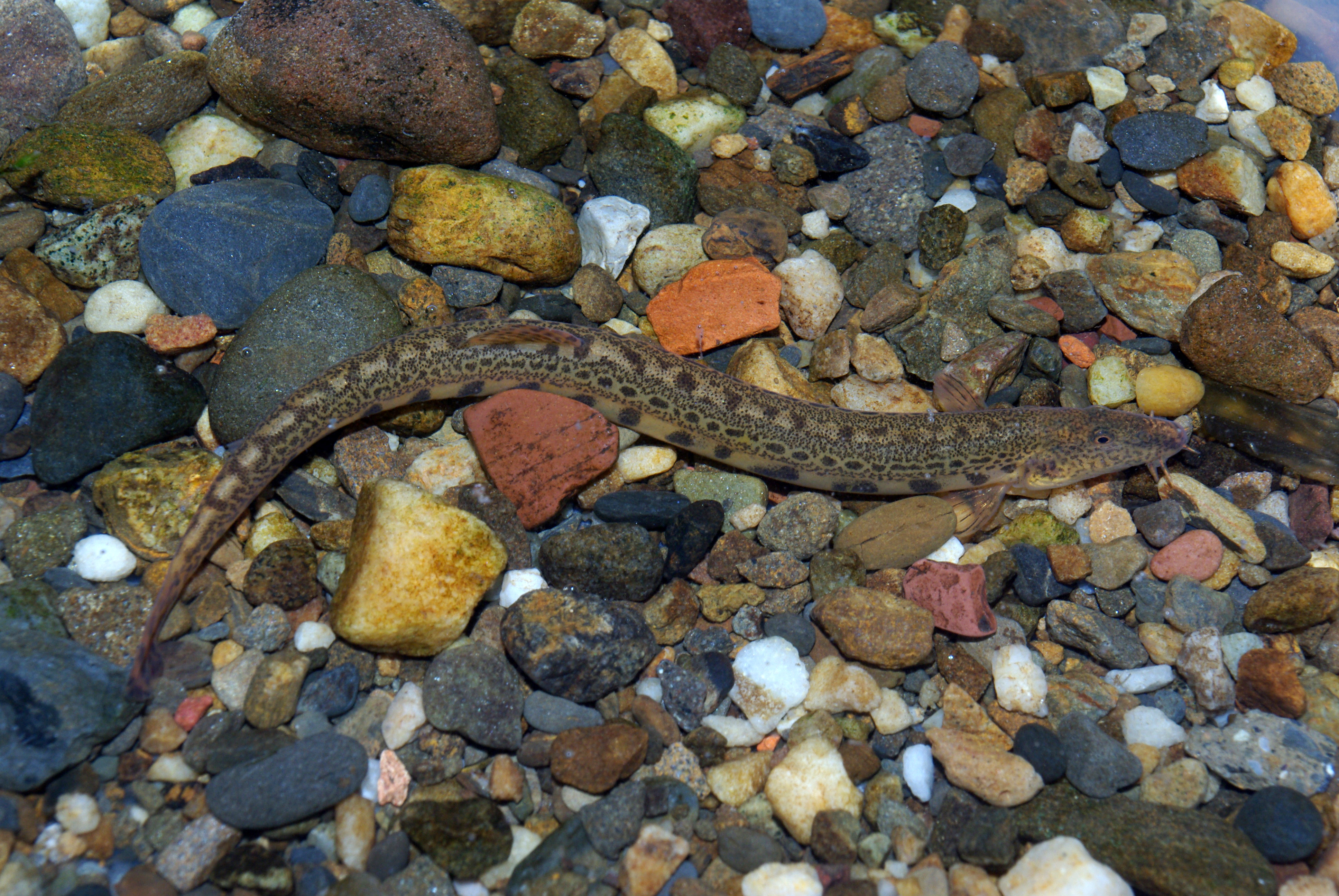 Cobitis calderoni. River Esla (Douro basin), near Riaño, León (Spain)